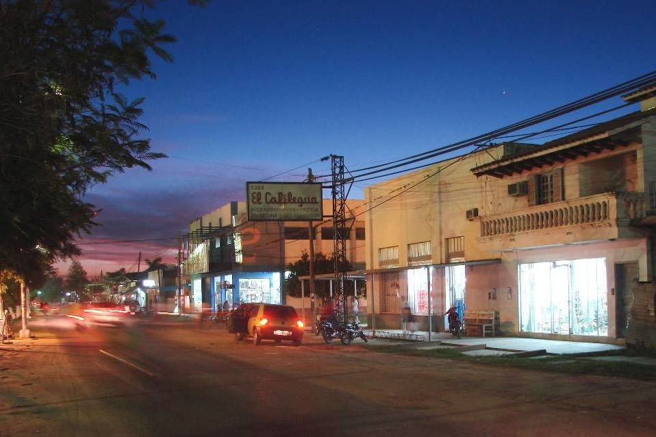 Street in Pirané, Formosa Province, Argentina.